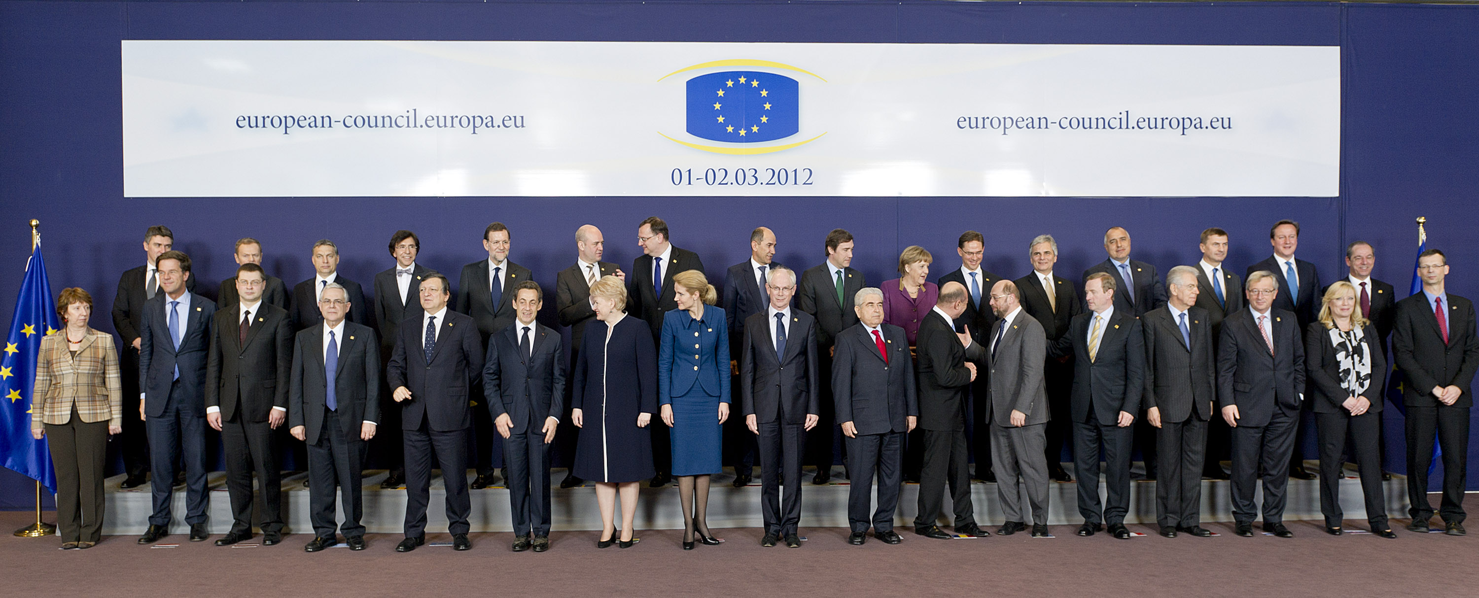 Foto: The Council of the European Union